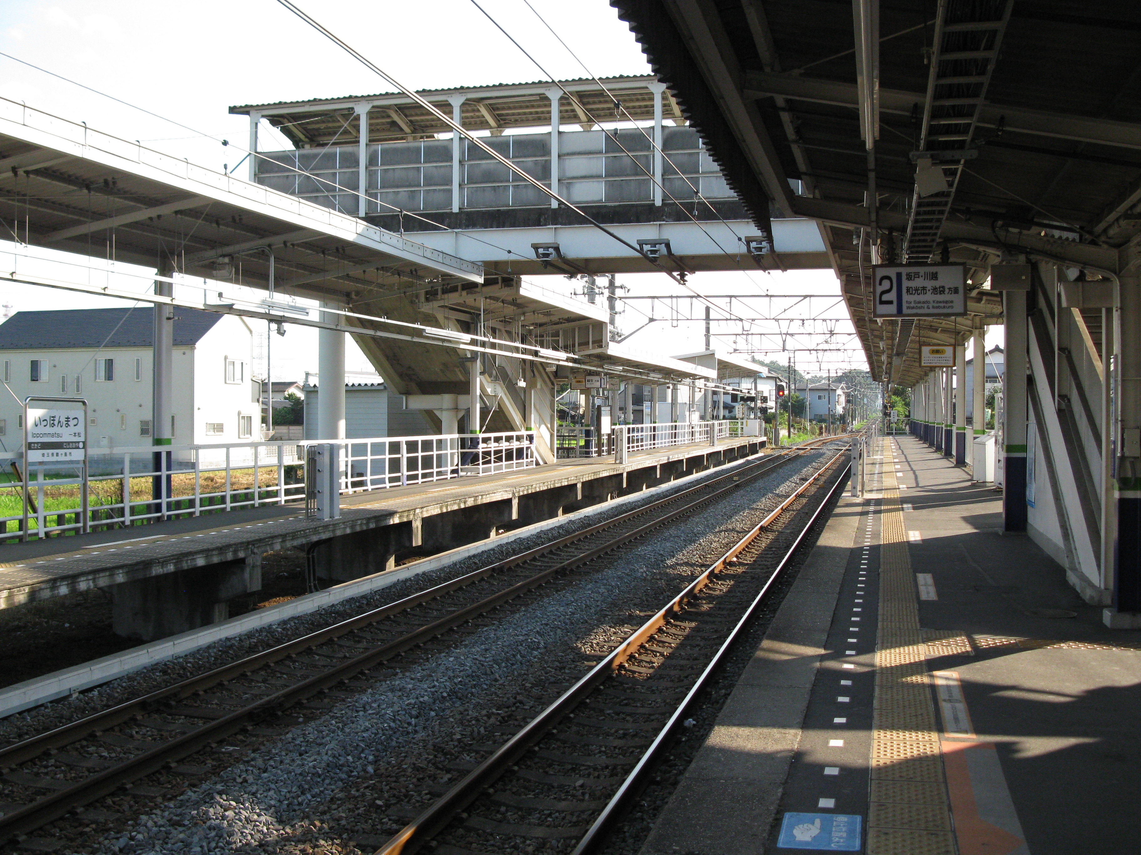 View of the platforms looking west at Ippommatsu Station on the Tobu Ogose Line